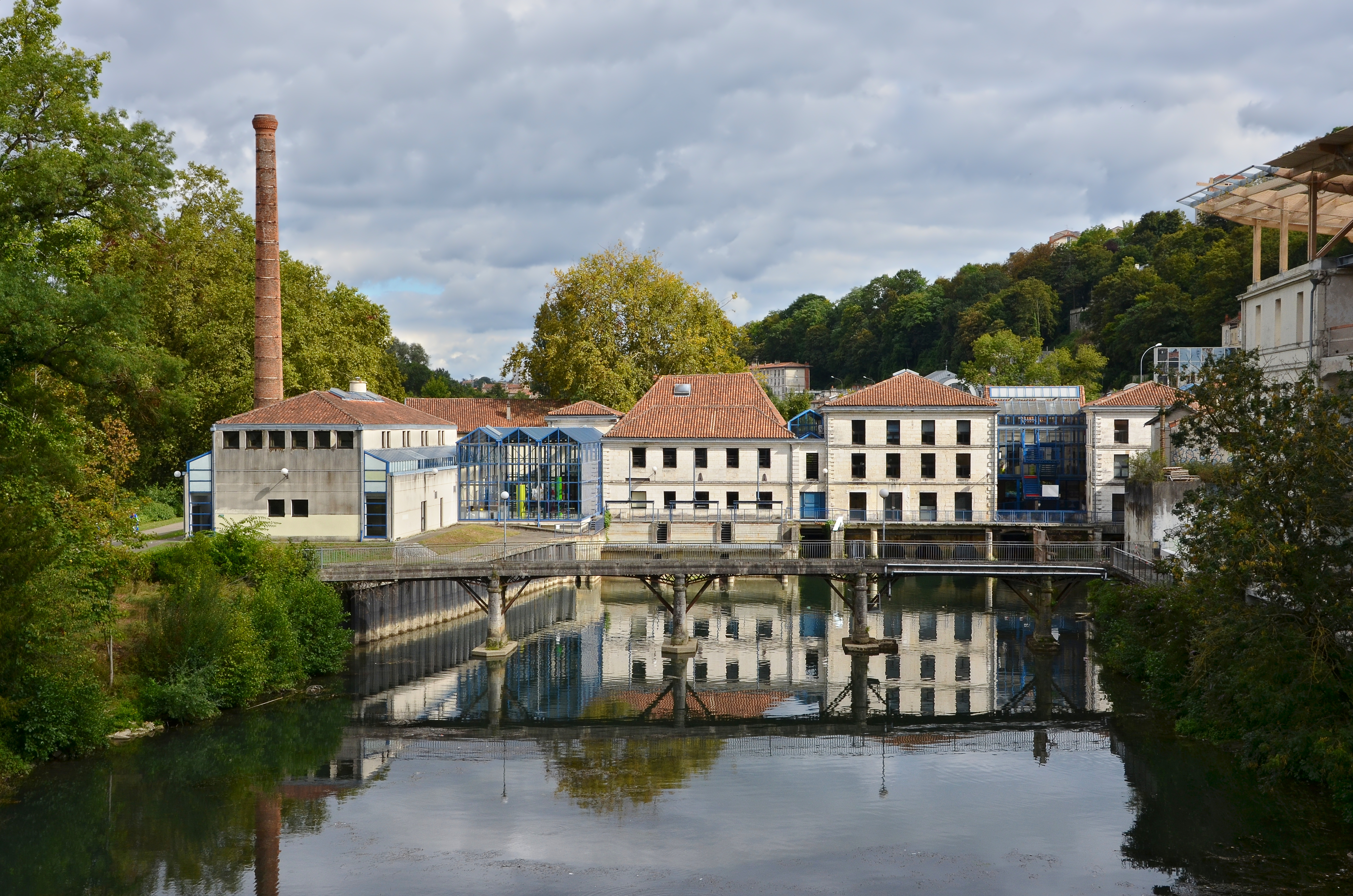 Former paper mill of Saint-Cybard-le-Nil (end of 19th century), now a museum of paper, Angoulême, Charente, France.